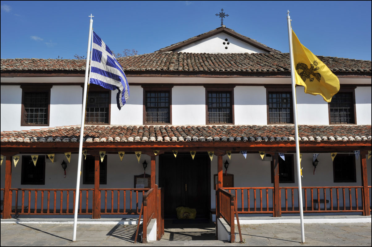 Komotini (Gümülcine), Greece. The Greek orthodox metropolitan church "Kimiseos tis theotokou".